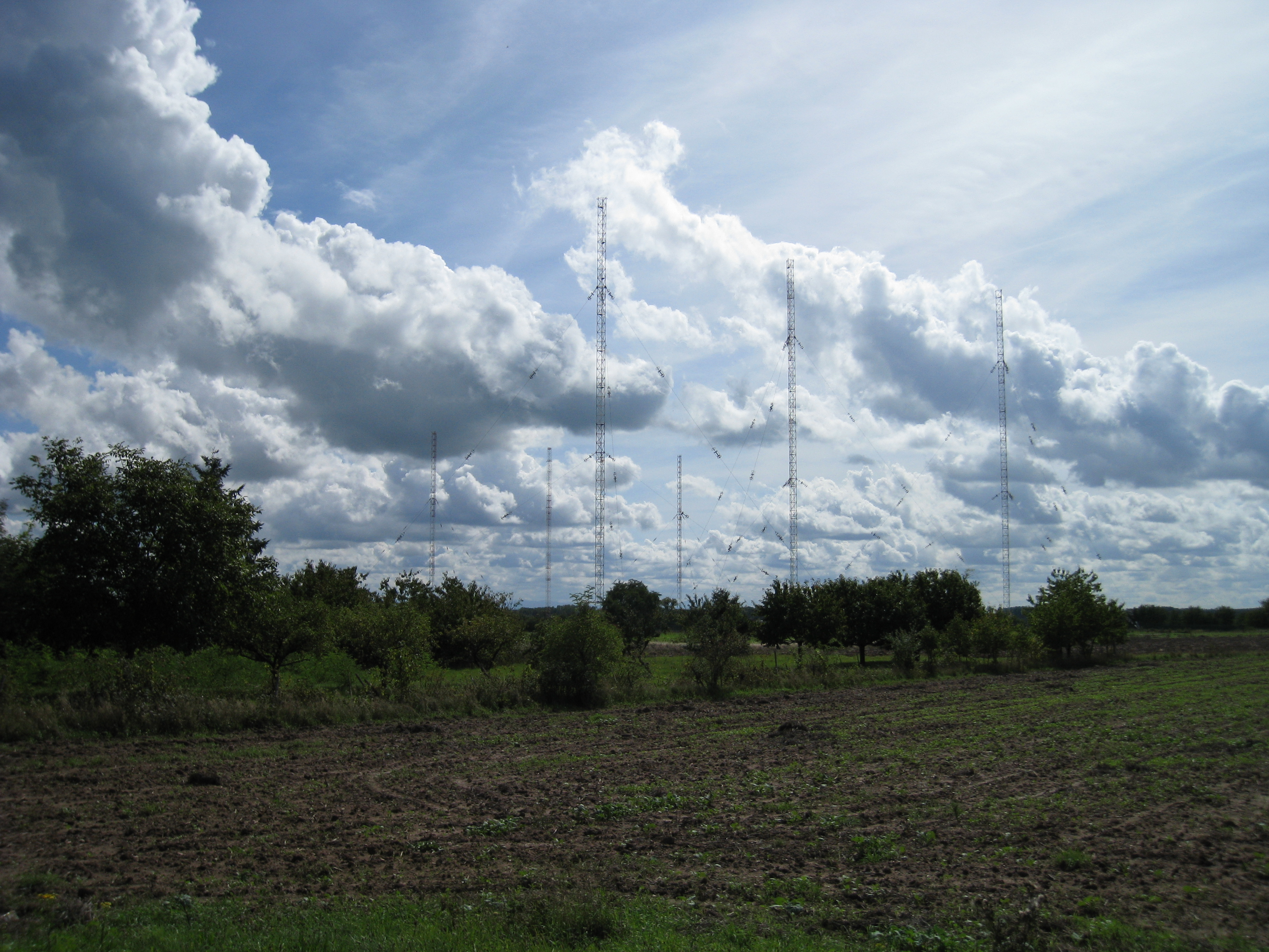 Medium wave transmitter Sélestat